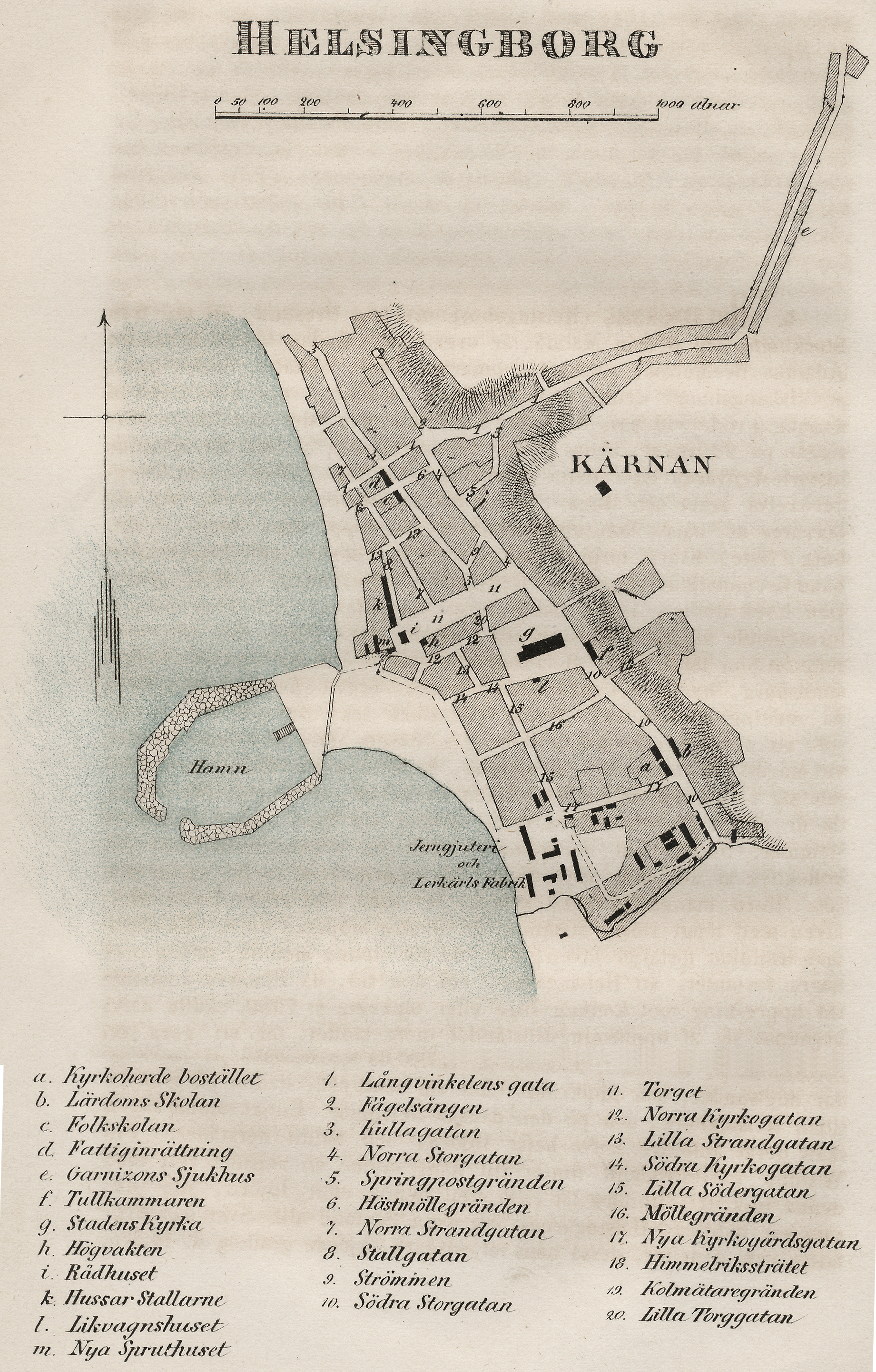 Map from about 1850 of the town of Helsingborg in Sweden.